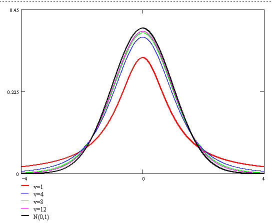 Author/autor: Konrad Witkowski (KaWus), KaWus1093 14:20, 24 June 2006 (UTC) Creation date/Data utworzenia:14:20, 24 June 2006 (UTC)